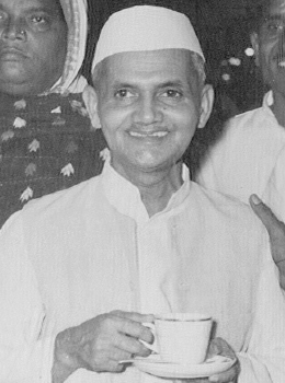 Sh. Mani Ram Bagri with Sh. Lal Bahadur Shastri